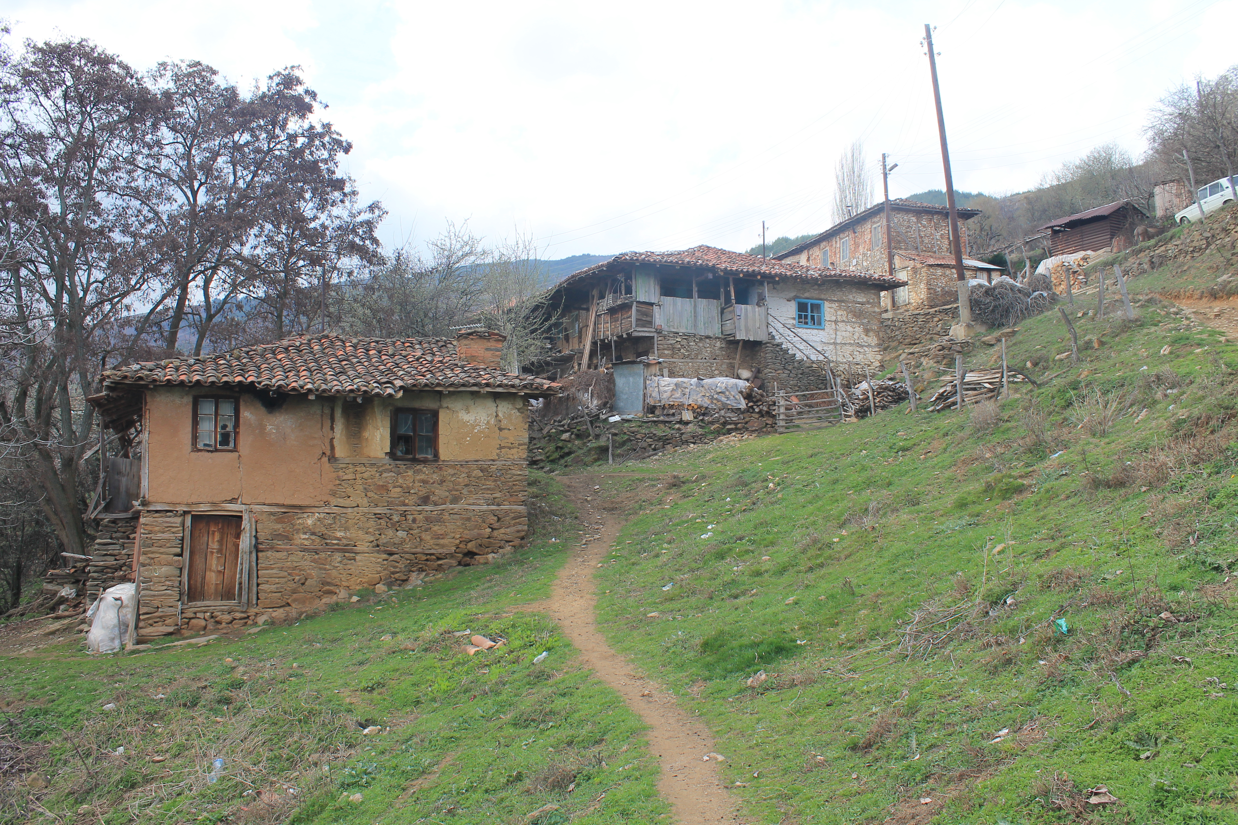 View from the village Baskaltsi, Southwestern Bulgaria